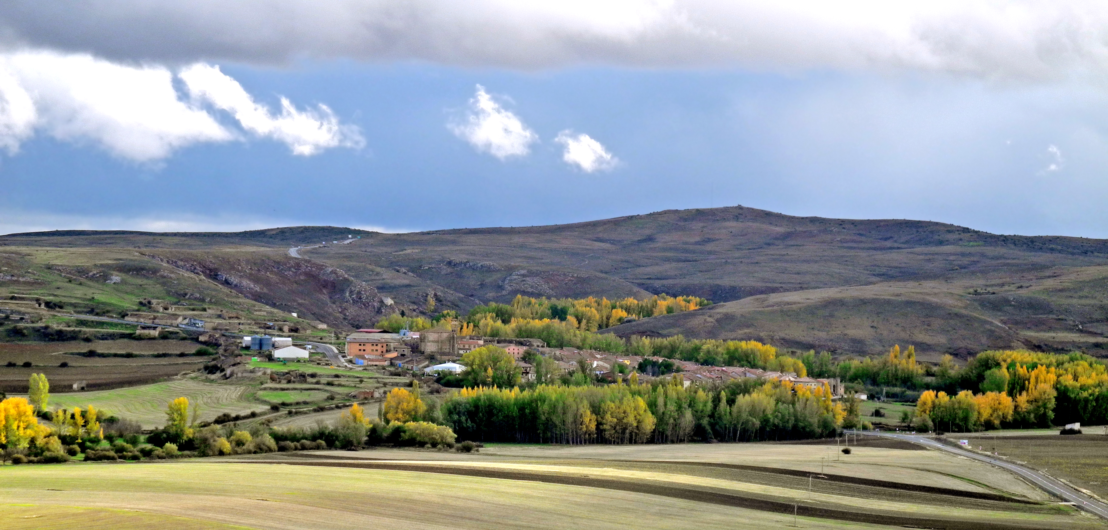 The village and its surroundings. Retortillo de Soria. Soria, Castile and León, Spain